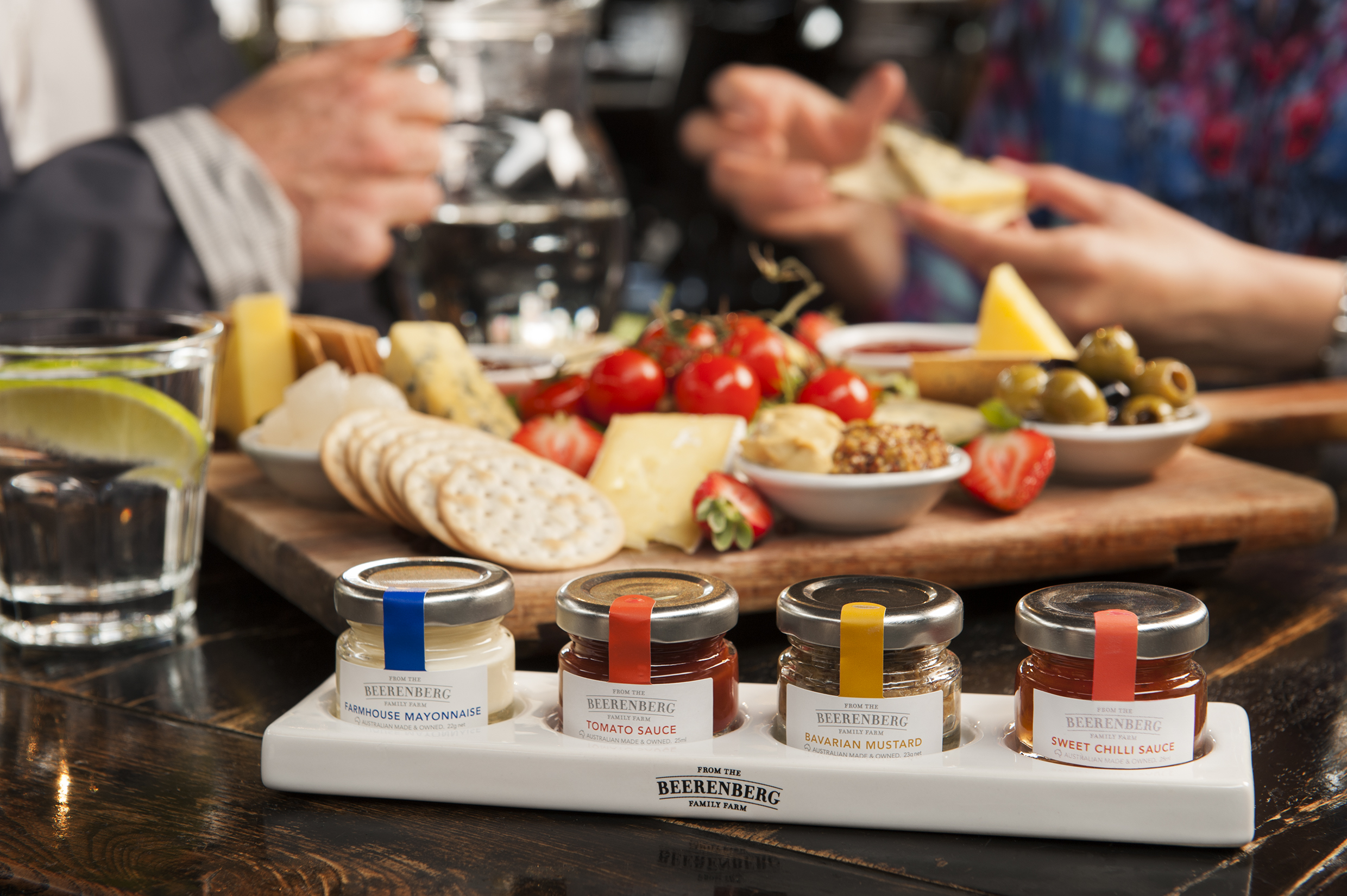 Beerenberg mini-jars